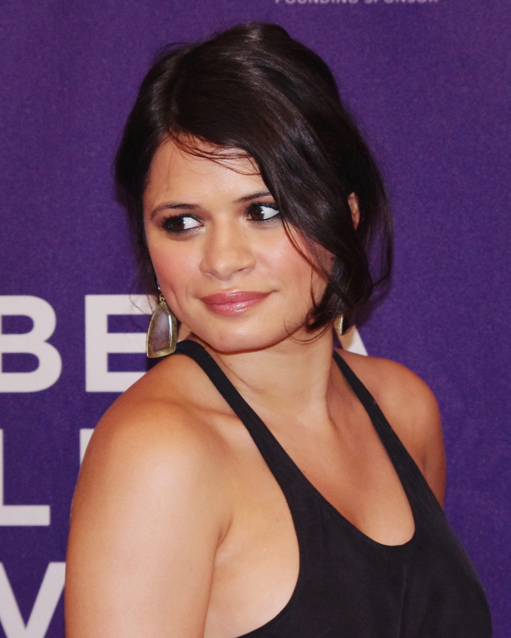 Melonie Diaz at the 2012 Tribeca Film Festival